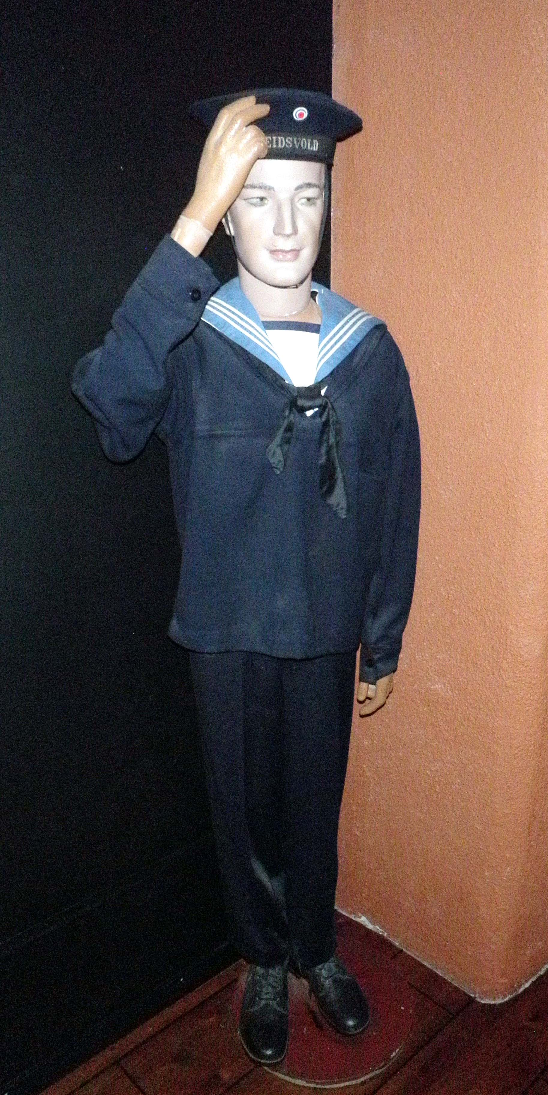 Museum figure with uniform worn by crew members the coastal defence ship HNoMS Eidsvold at the War Museum in Narvik, Nordland, Norway.